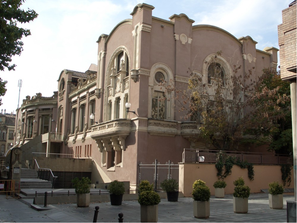 Casino of Manresa by Ignasi Oms i Ponsa